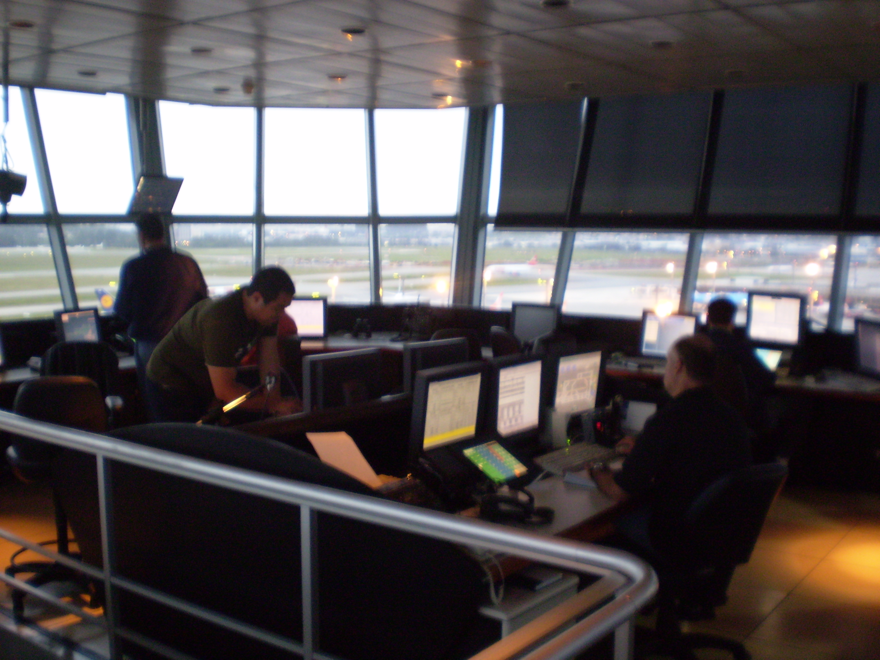 Inside the São Paulo/Guarulhos International Airport's tower, the second world's most modern control tower.